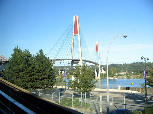 Lalania F. I took this image myself, with a digital camera.